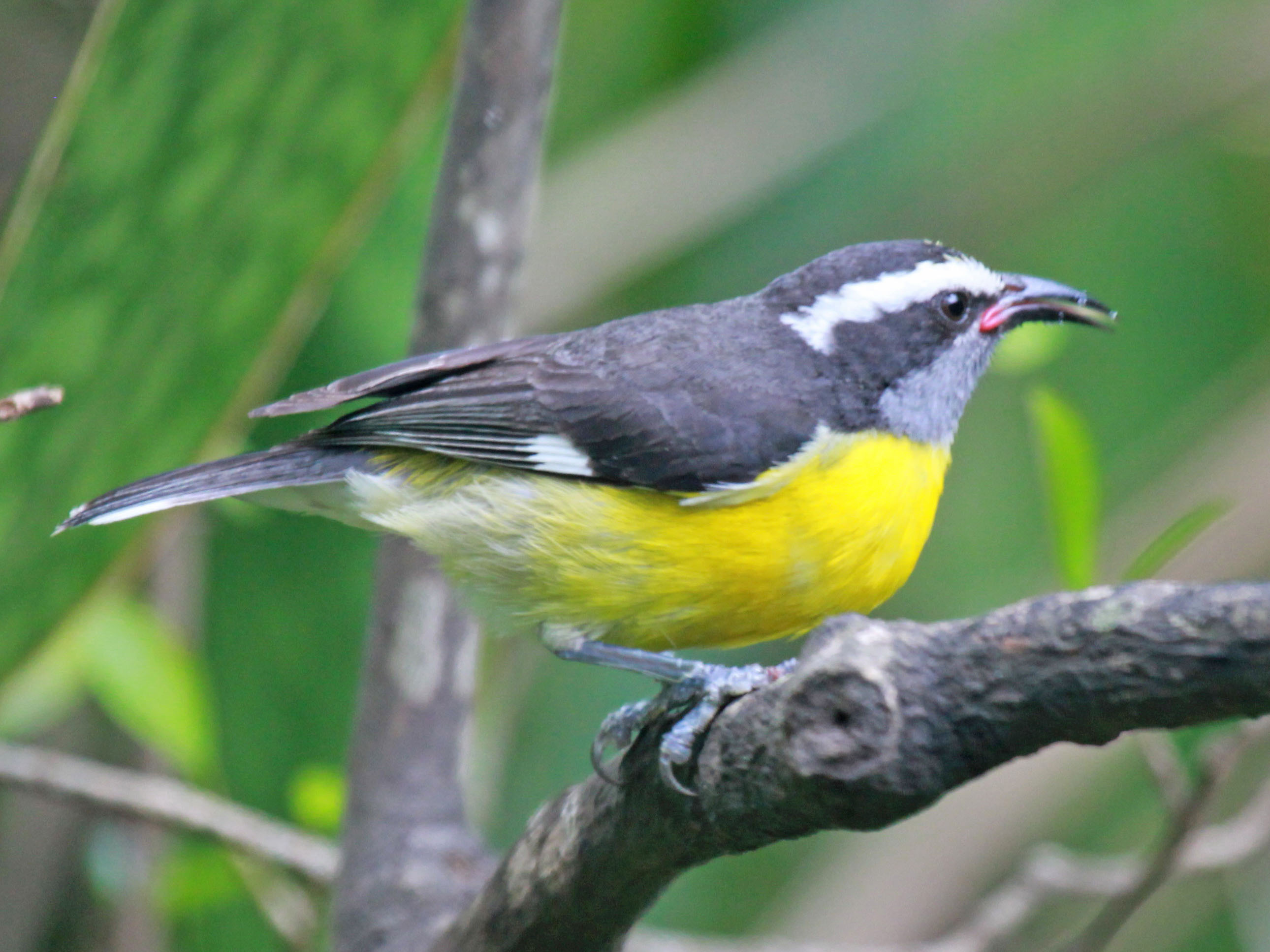 A adult bananaquit (Coereba flaveola) on St. John, Virgin Islands